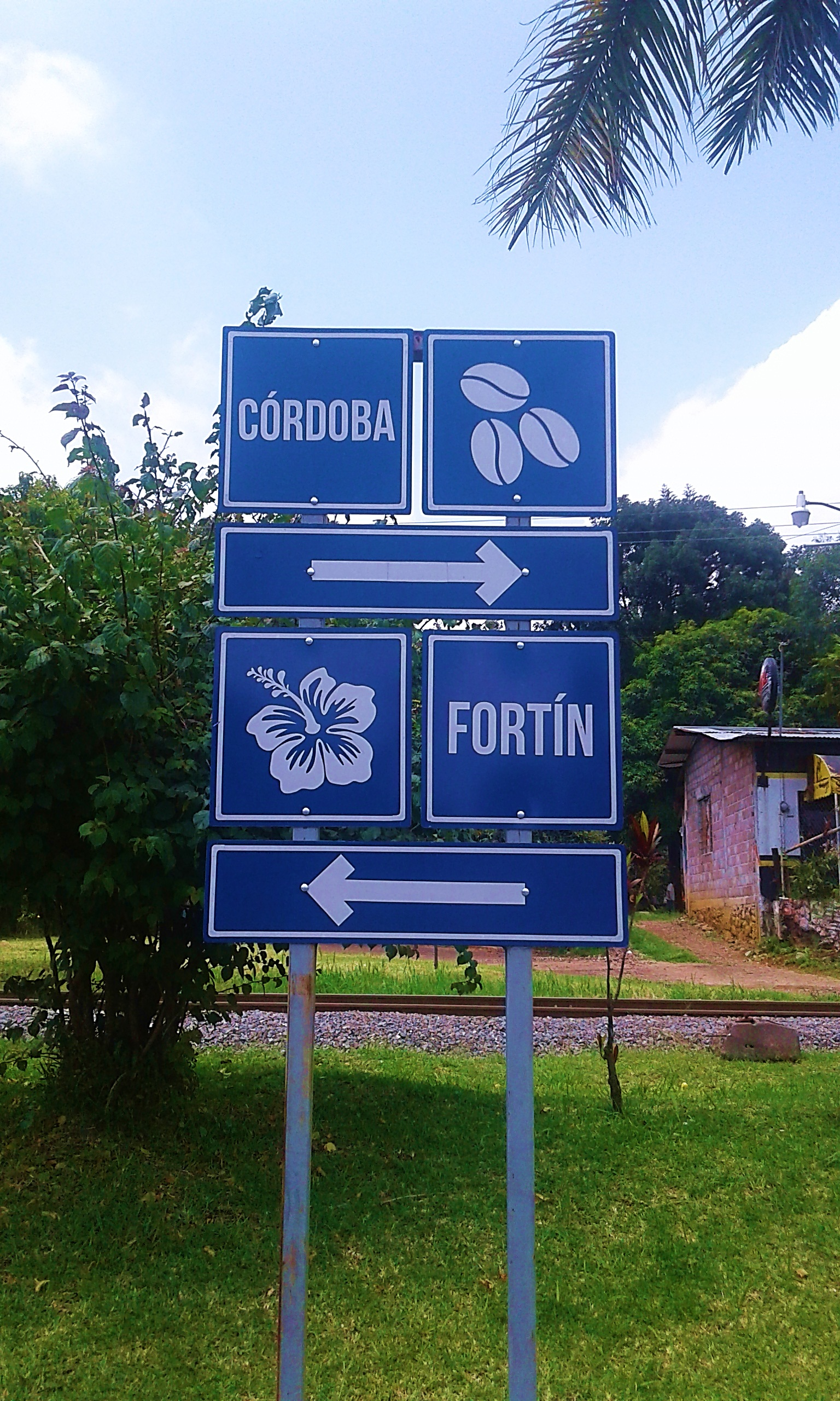 traffic signal